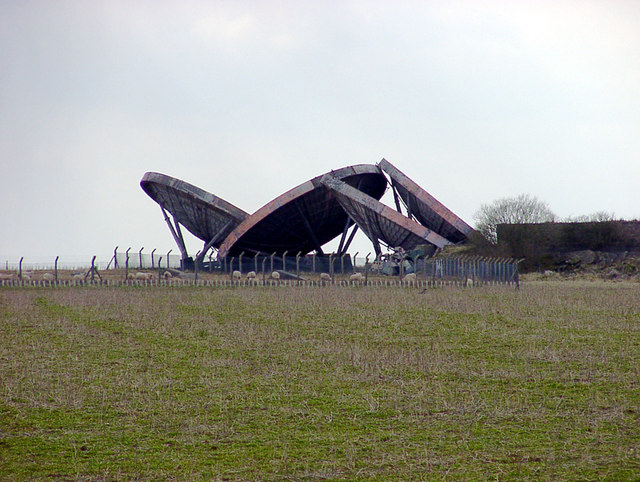 Abandoned Tropospheric Scatter Dishes This grid square used to house RAF Stenigot and these dishes were once part of the NATO ACE HIGH communication system. Some idea of their size can be gleaned from comparison with the grazing sheep.